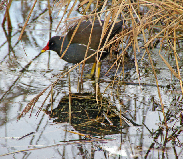 Moor-Hen in the Reedbed Moor-Hen in Waters' Edge Park.